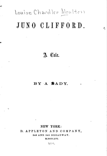 Juno Clifford: A Tale, By Louise Chandler Moulton, Lady